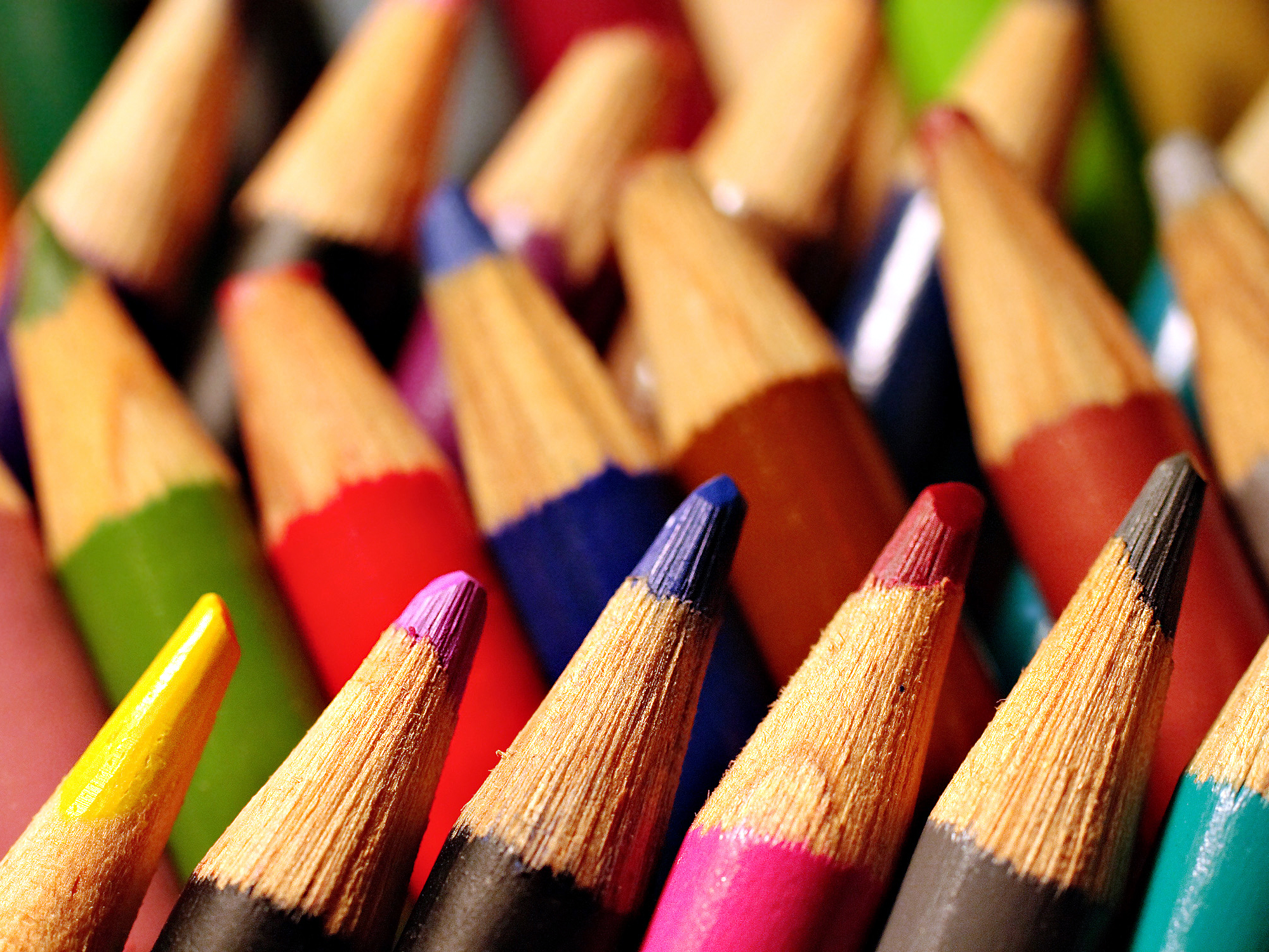 Coloring pencils.